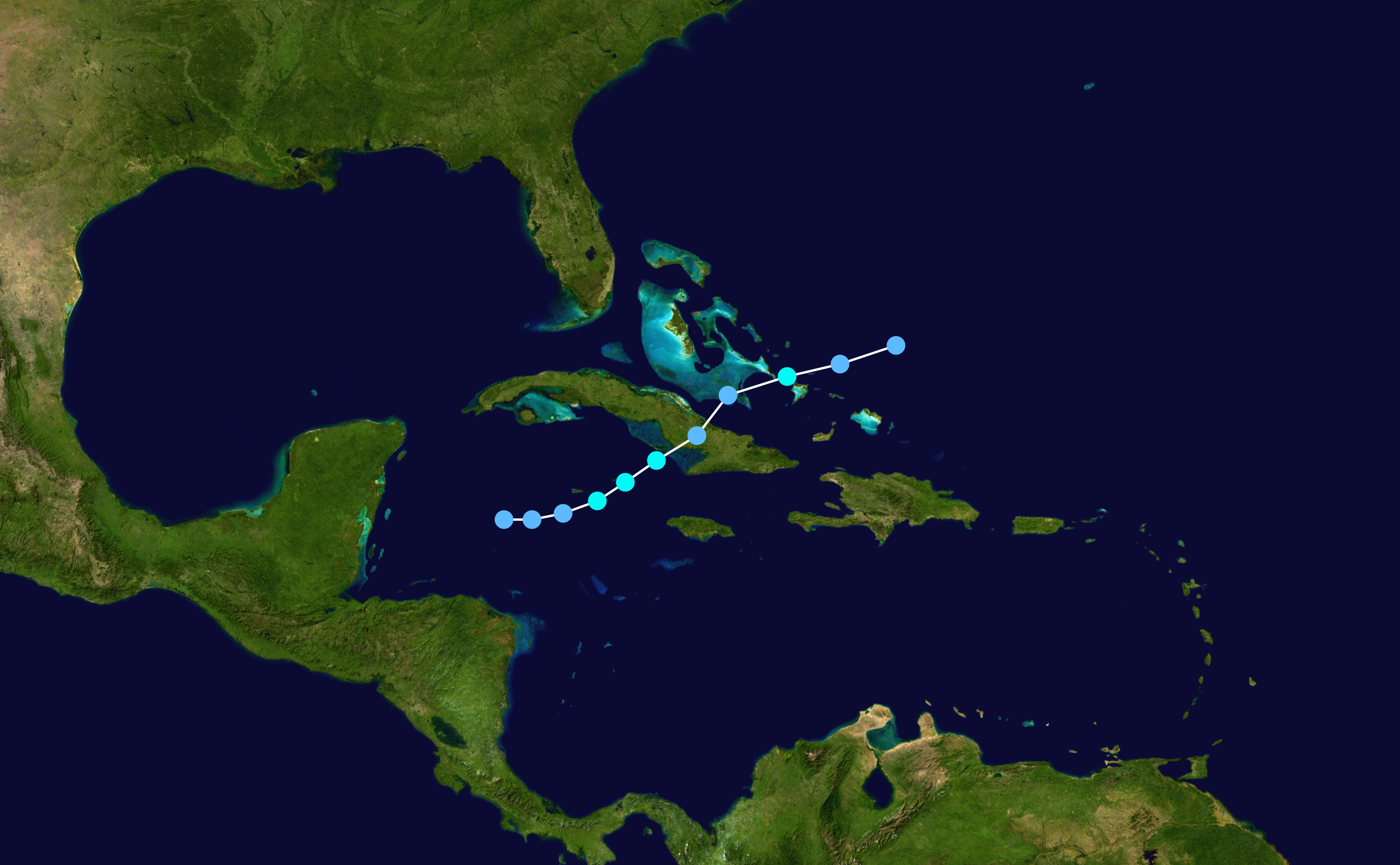 Tropical Storm Arlene (1981) track. Uses the color scheme from the Saffir-Simpson Hurricane Scale.